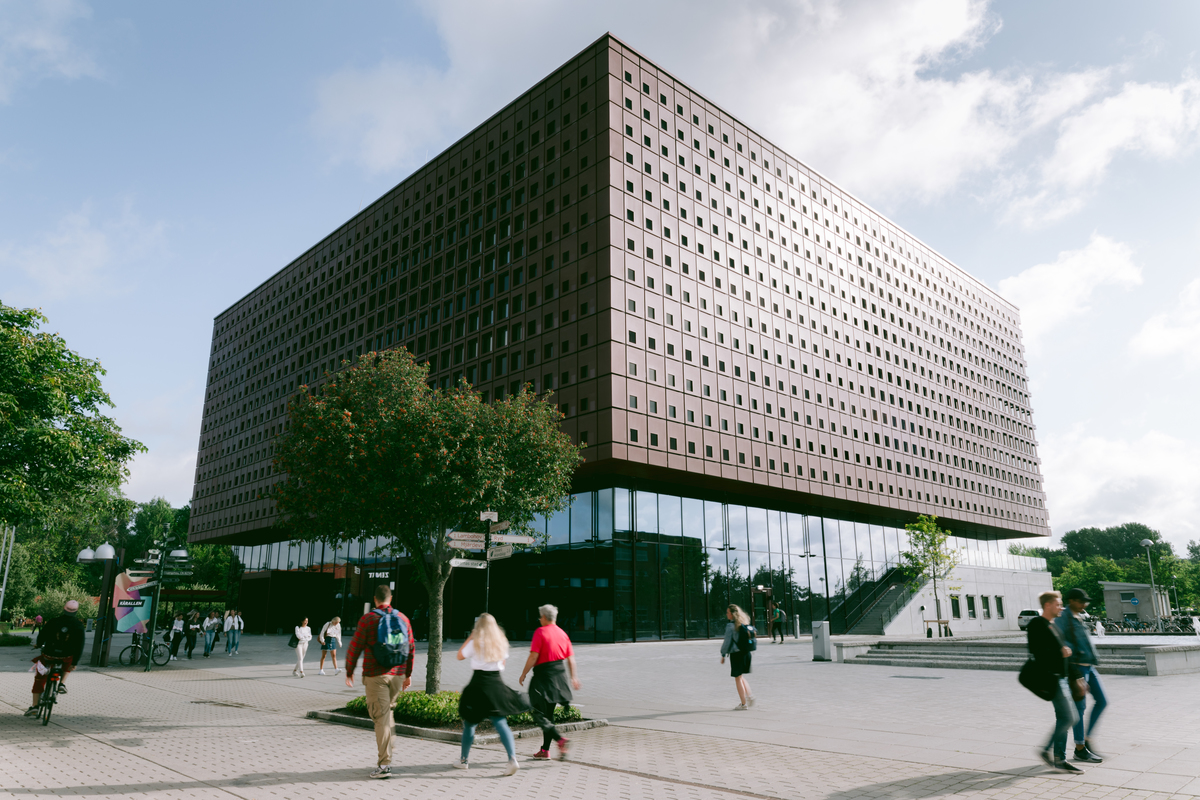 Studenthuset at Linköping University is a place where students, researchers and teachers meet; here you find the library, student services and many study areas.